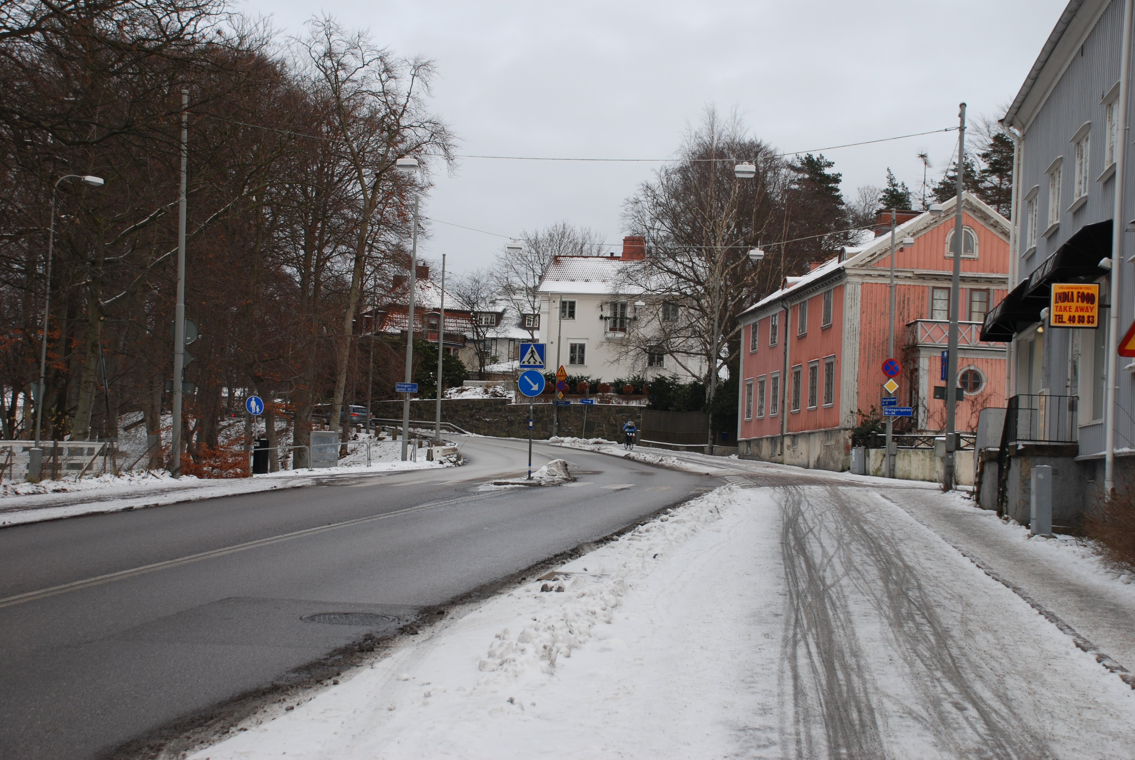 Delsjövägen at Sankt Sigfrids plan in Örgryte, Göteborg.